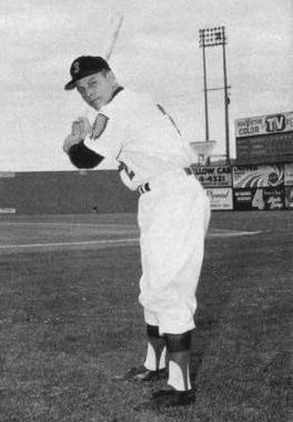 Professional baseball player Ramon Conde